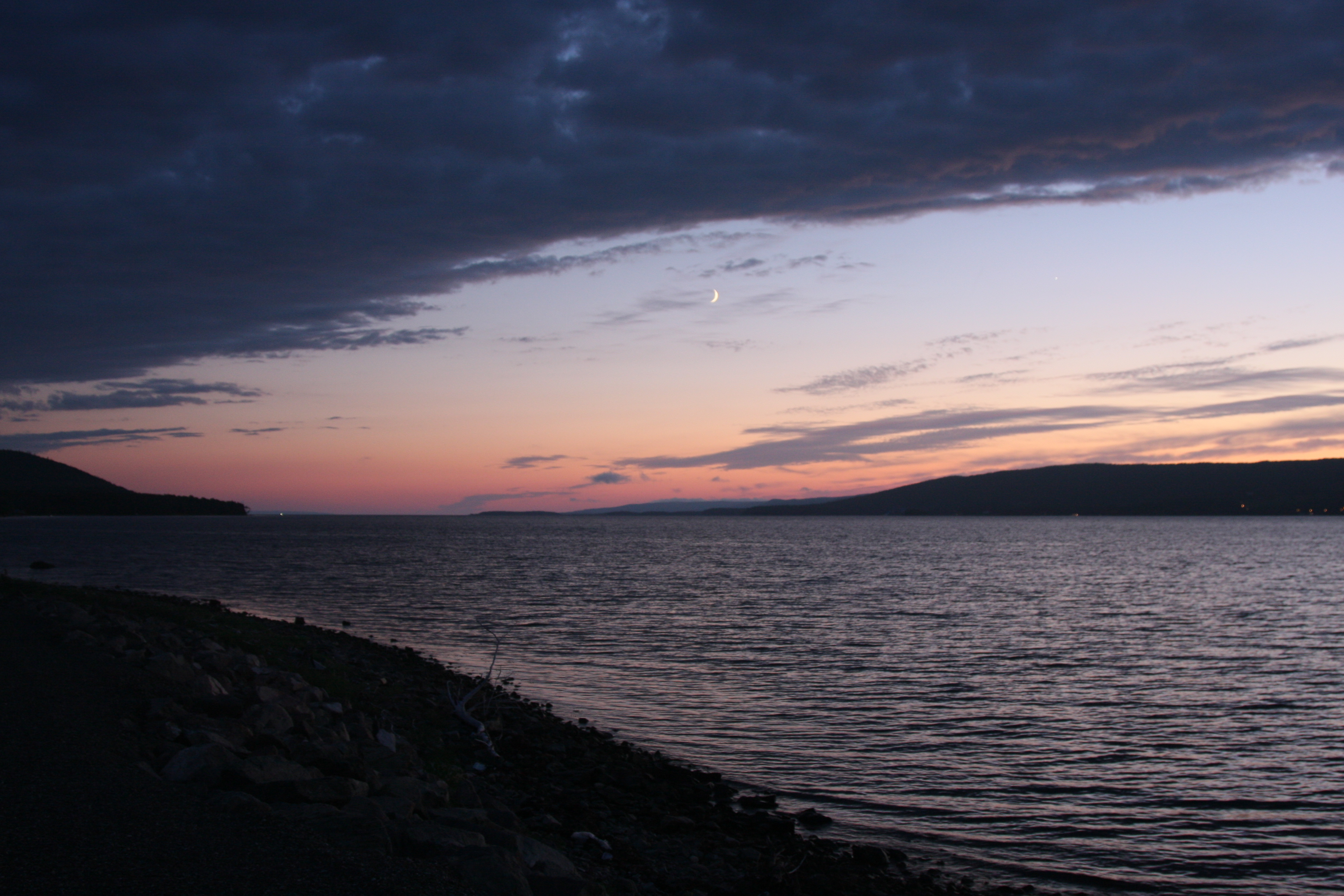 East Bay is a bay of the Bras d'Or Lake on Cape Breton Island in the Canadian province of Nova Scotia. It lies entirely within Cape Breton County. East Bay is one of three long narrow arms that extend to the east of the main body of the Bras d'Or Lake, the others being St. Andrews Channel and Great Bras d'Or Channel. As East Bay is part of the Bras d'Or Lake system and the lake is essentially a fiordal system connected to the North Atlantic via two restricted channels at the Great Bras d'Or Channel north of Boularderie Island and the Little Bras d'Or Channel to south of Boularderie Island, the waters of East Bay are brackish, partially fresh/ salt water. East Bay opens to the south-west directly onto the Bras d'Or Lake and lies between the Boisdale Hills to the north and the East Bay Hills to the south. The bay measures 8.3 kilometres (5.2 mi) wide at its mouth, between Benacadie Point to the north, and Middle Cape to the south and runs easterly 41 kilometres (25 mi) to its terminus at Portage. East Bay has 77.9 kilometres (48.4 mi) of shoreline. The bay's shores are generally heavily wooded and consist mainly of bold and rocky shorelines interspersed with numerous barrachois (barrier) points and beaches. Glacial drumlin deposits form a group of islands along the northern shore of East Bay. The narrower eastern end of the bay is bridged by the East Bay Sandbar, running east-west 1.25 kilometres (0.78 mi).